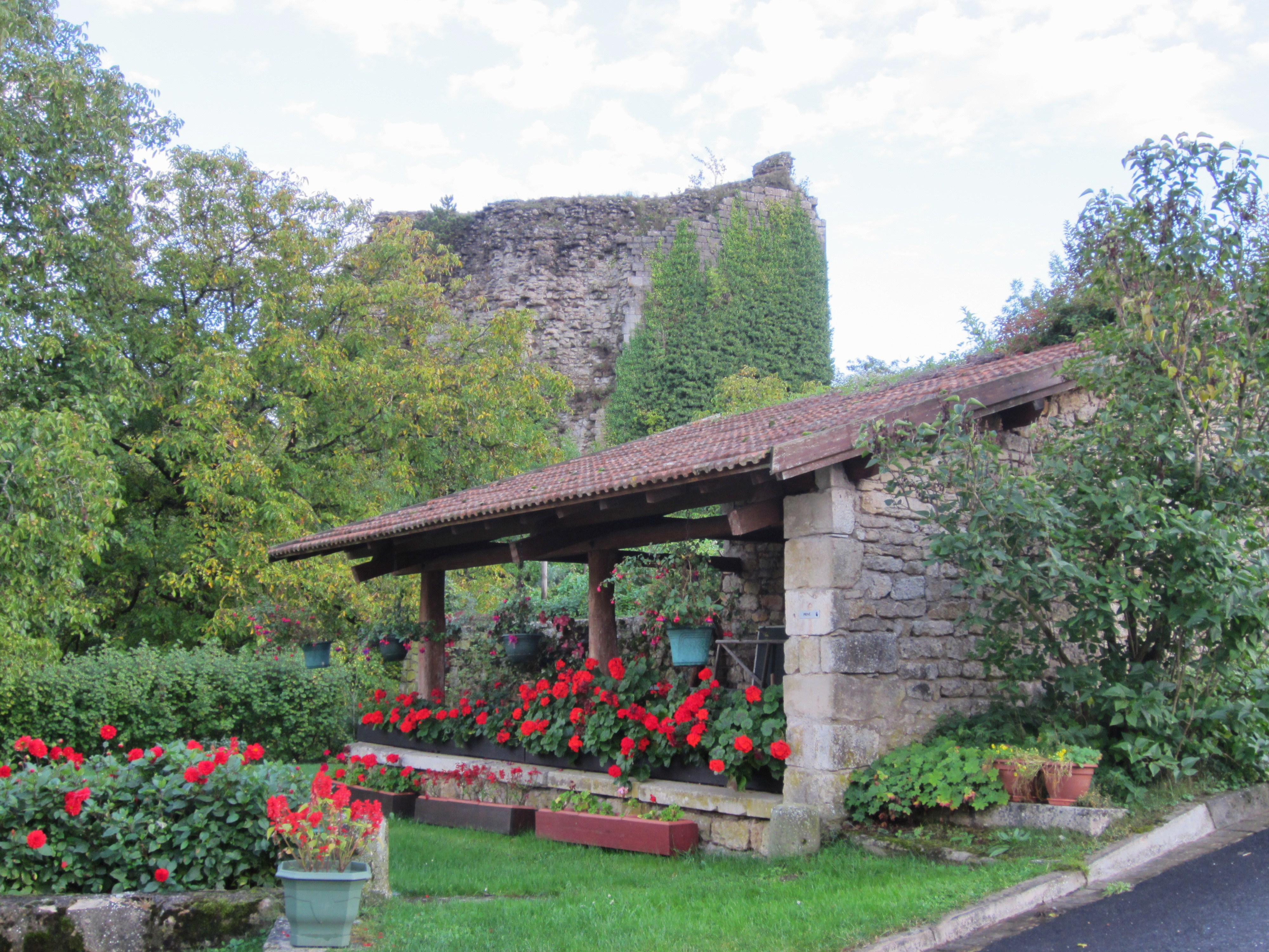 Description lavoir chateau Preny Date13 September 2011Sourcemon appareil photoAuthorAimelaimePermission (Reusing this file) lavoir chateau Preny